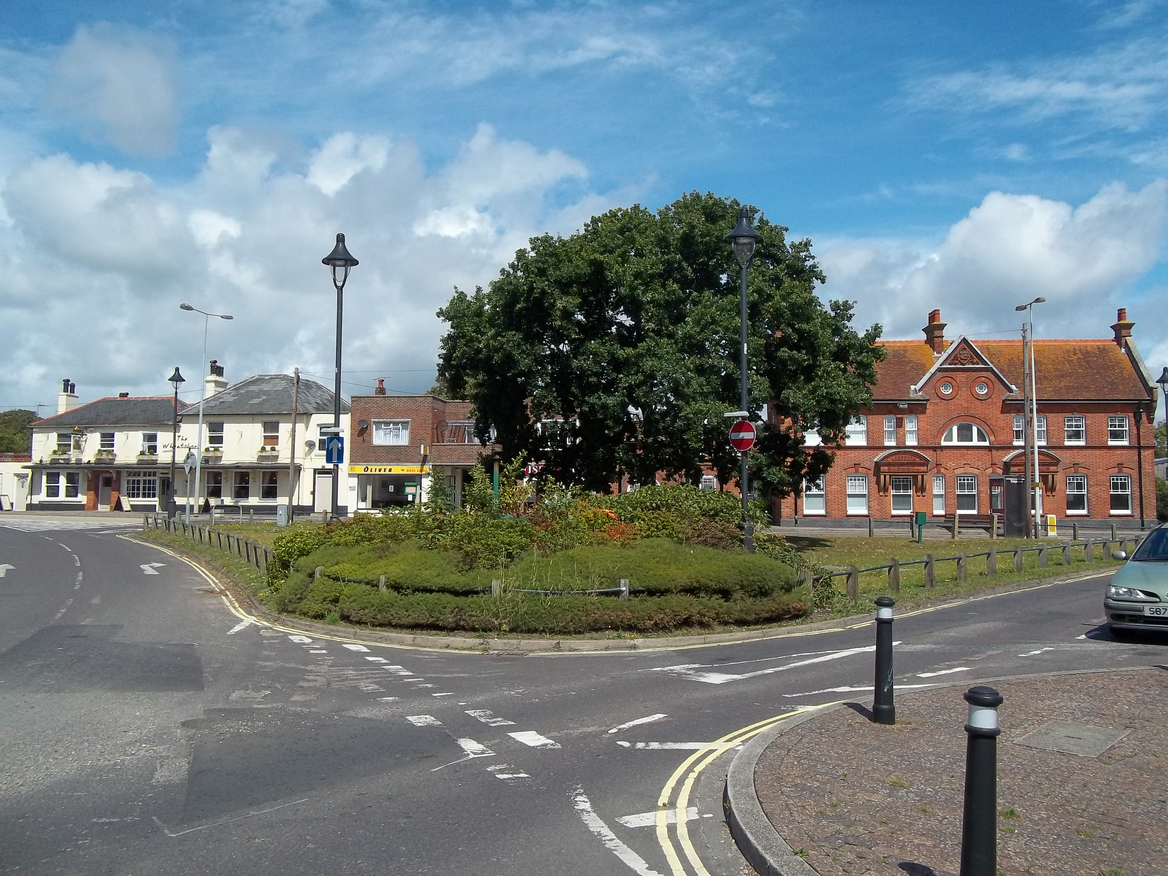 Remnant of the once substantial village green of Milton (now New Milton) in Hampshire, England.